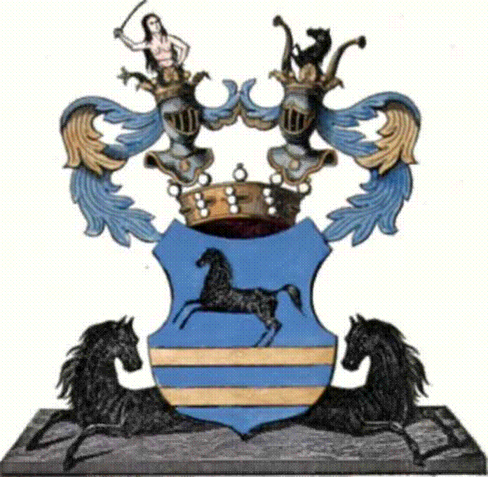 Chaudoir COA in Russia